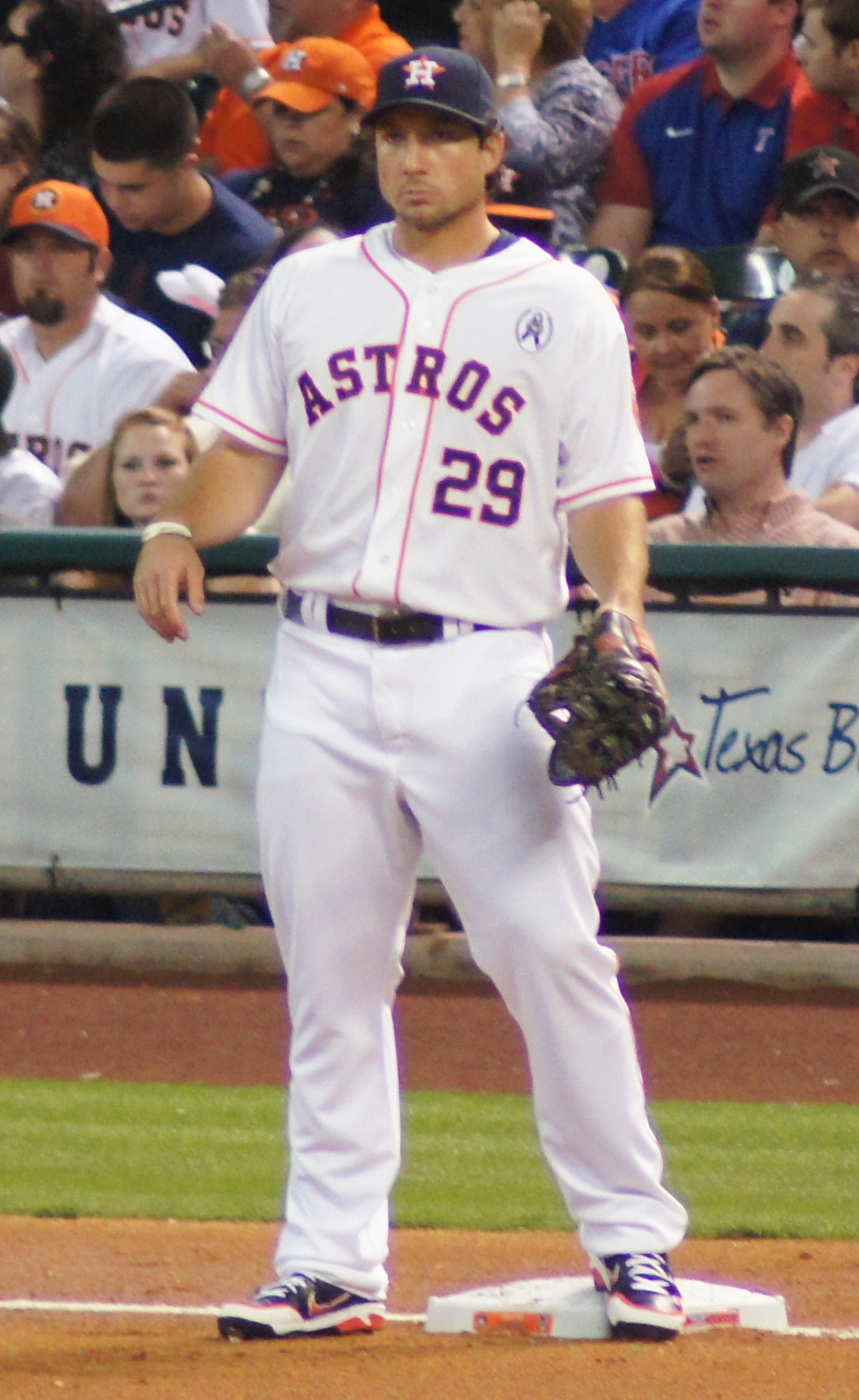 Brett Wallace as a Houston Astro on opening day 2013